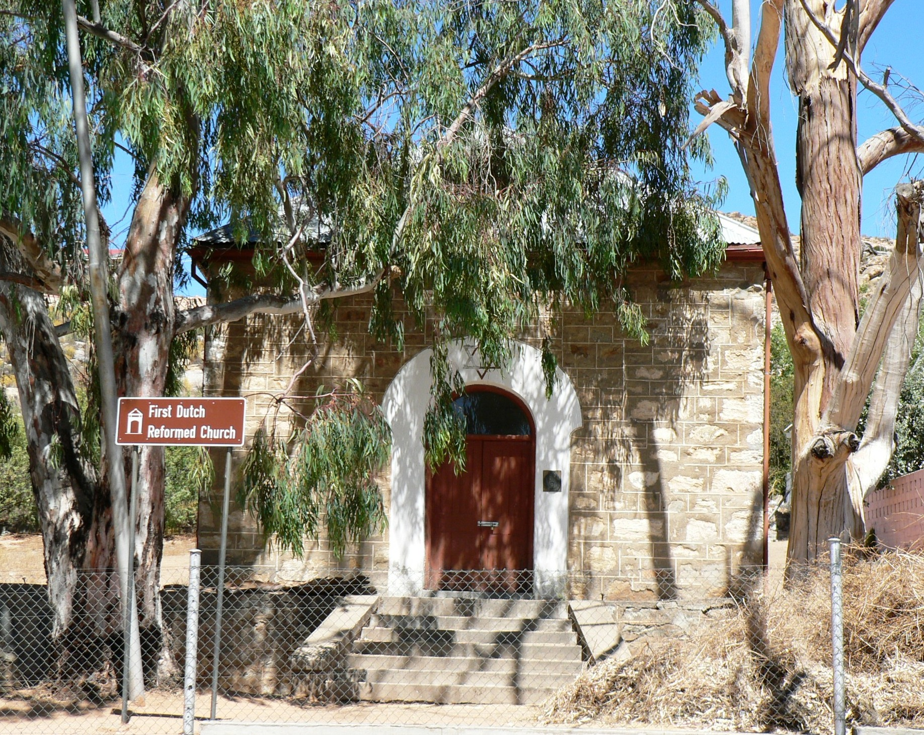 First used as a church and from the 1920s as the first synagogue. Now part of the museum. This media shows a South African Protected Site with SAHRA file reference 9/2/066/0021.